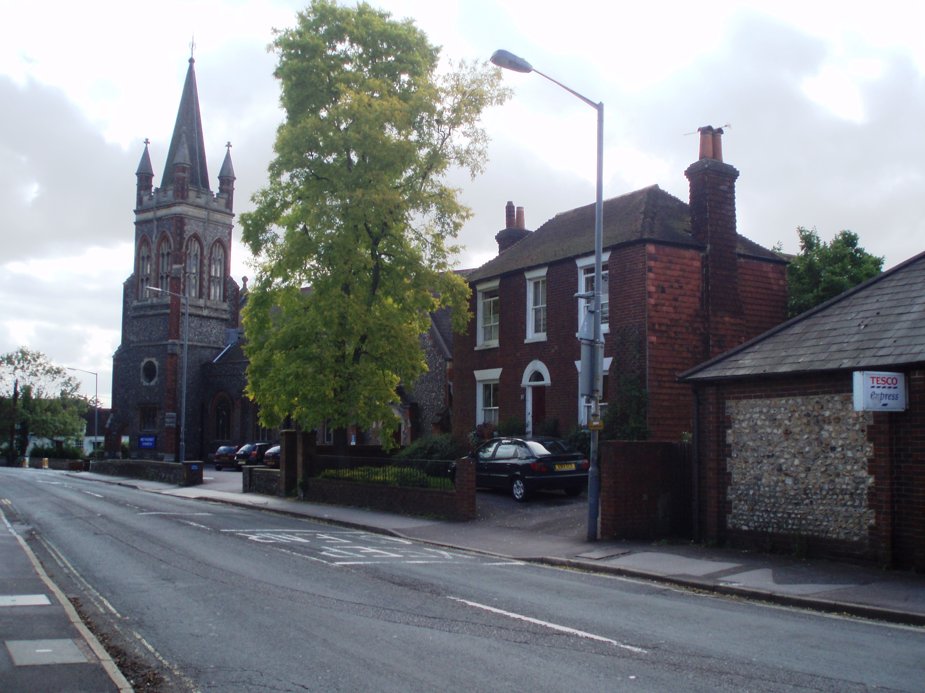 Wilfred Brown's Petersfield home. Photo taken 26th August 2007